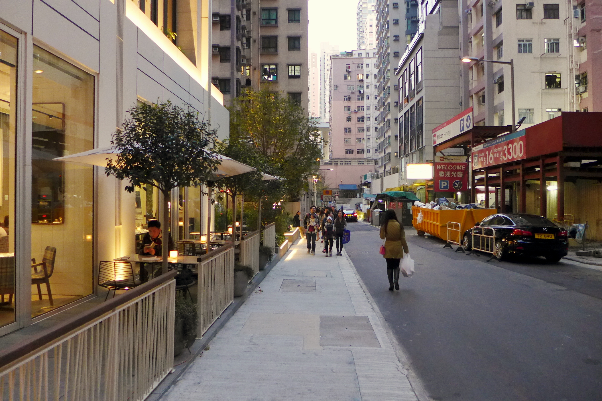 South Lane